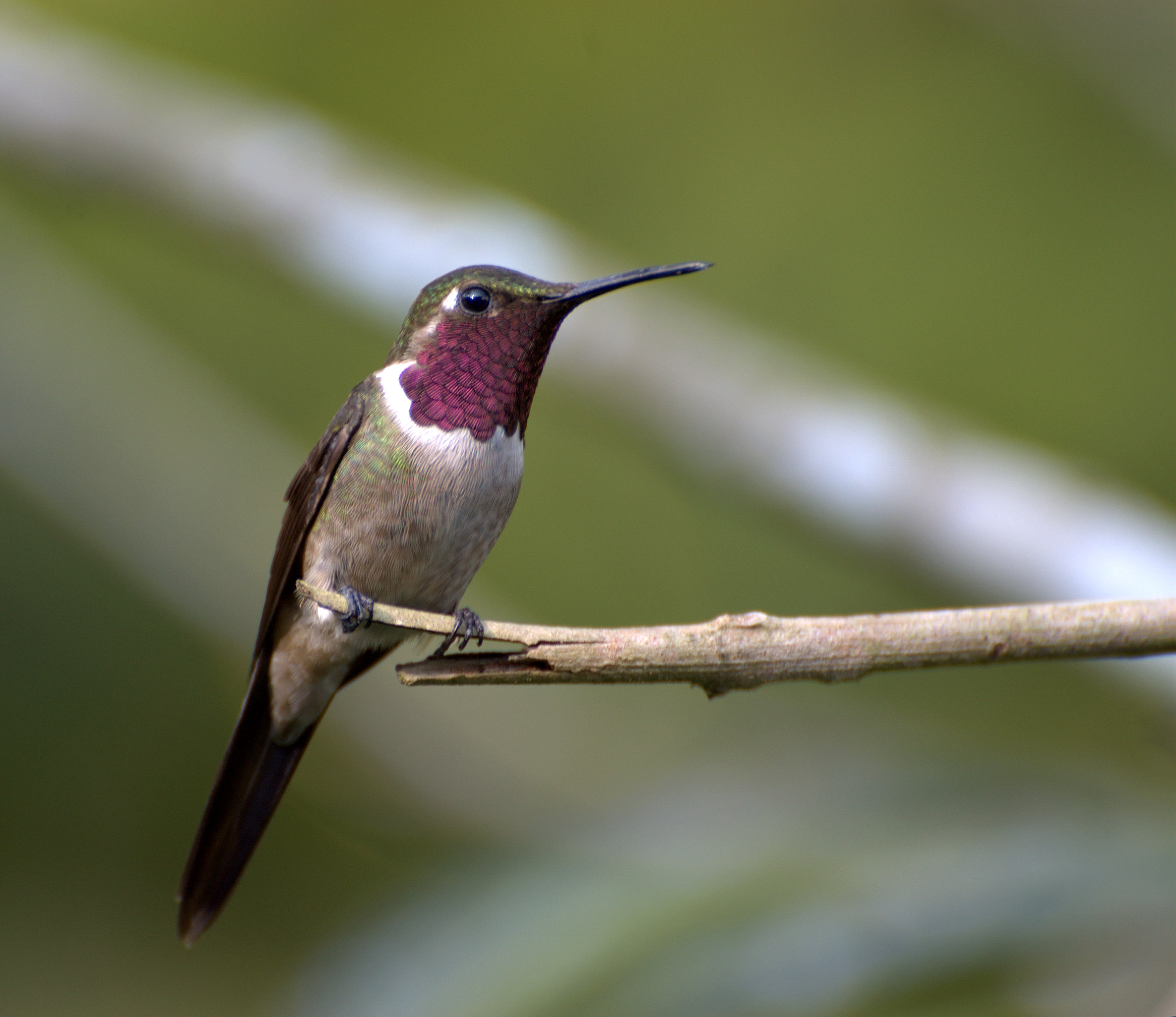 Male Amethyst Woodstar (Calliphlox amethystina) at Chácara Antonio Wuo, Mogi das Cruzes-SP (Brazil)